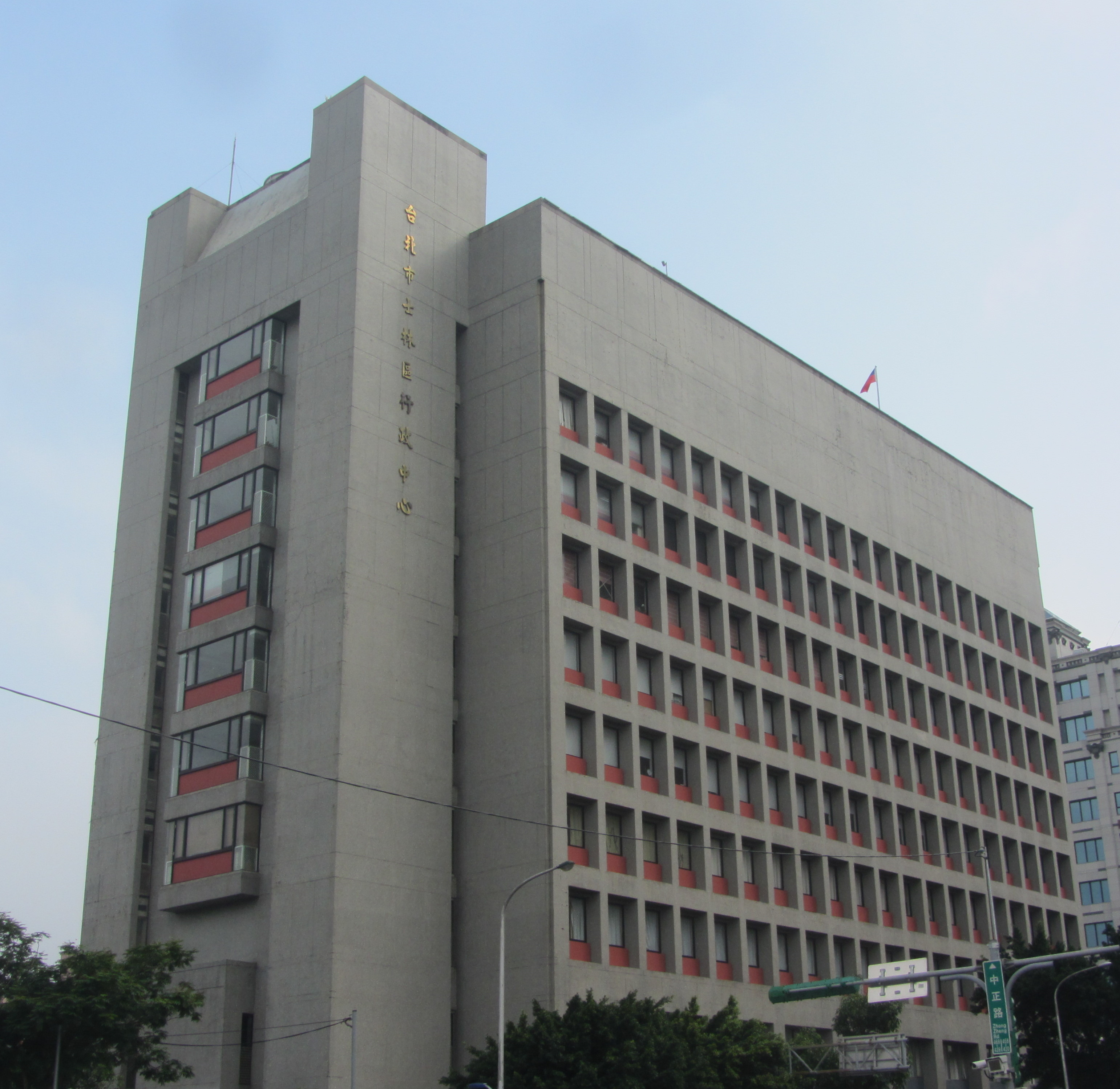 Shilin District Administration Center, Taipei City.